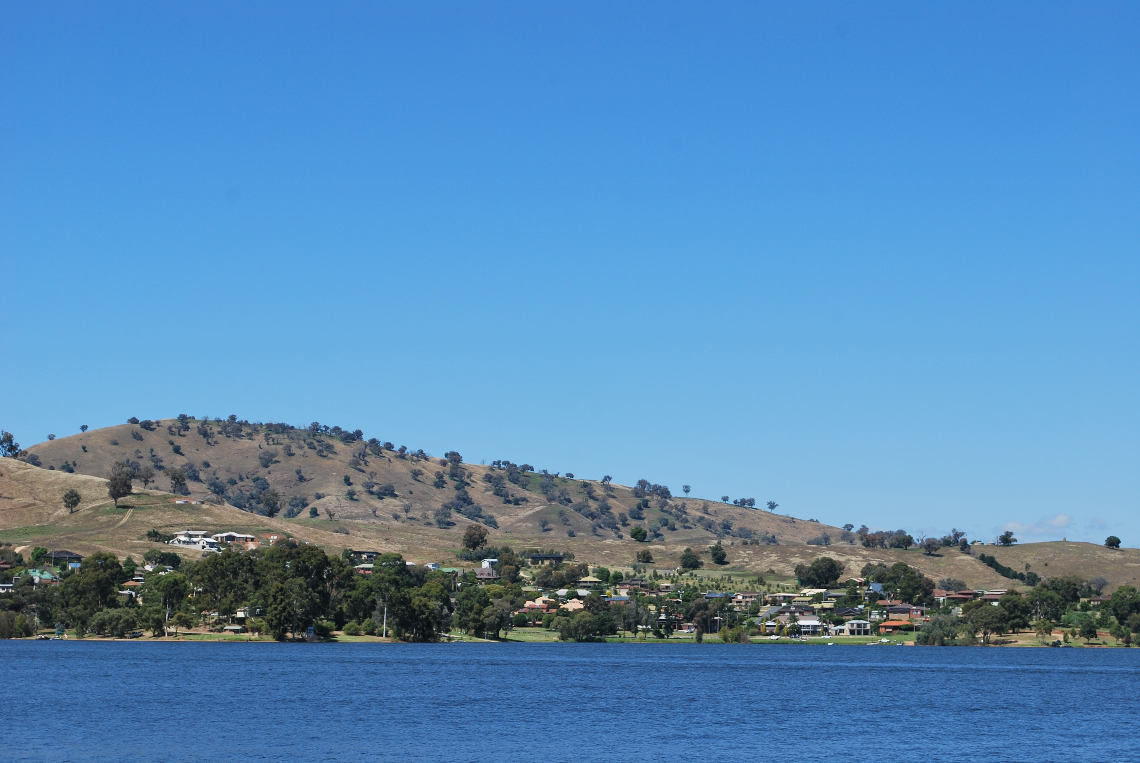 Bellbridge, Victoria looking across a full Lake Hume in 2011